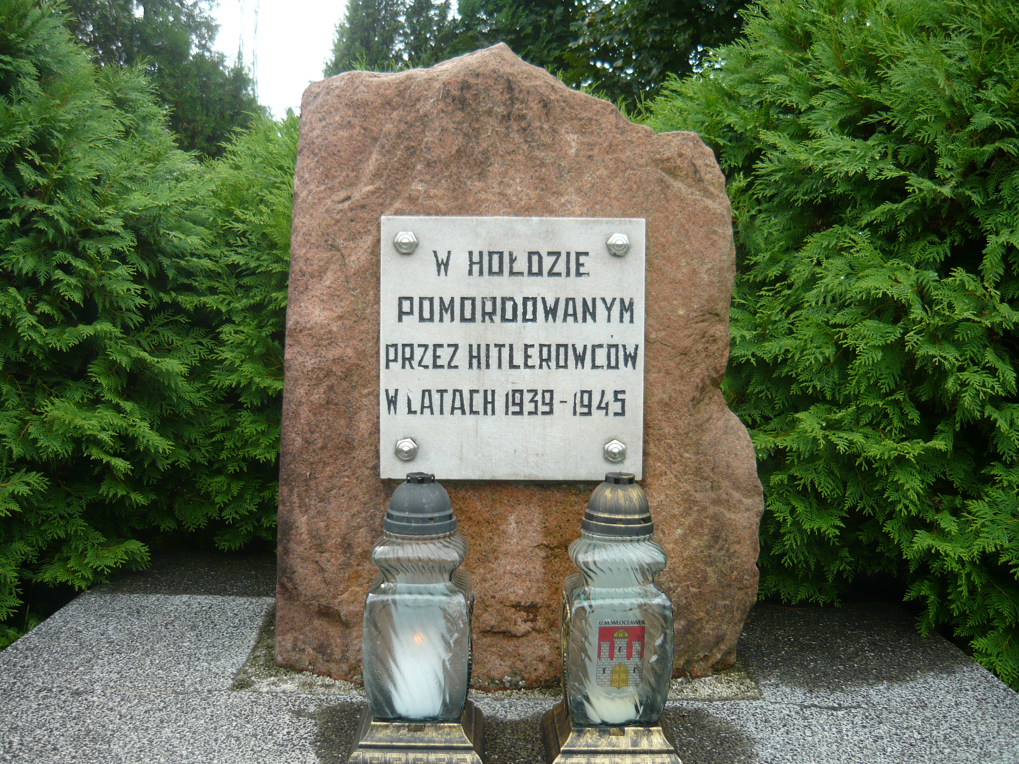 The monument of people killed by nazis on Włocławek's graveyard in the place, where rest important people killed during the II world war.